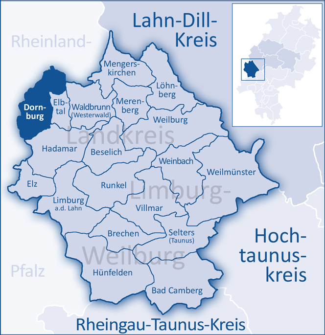 The map shows a district in the area of Limburg-Weilburg